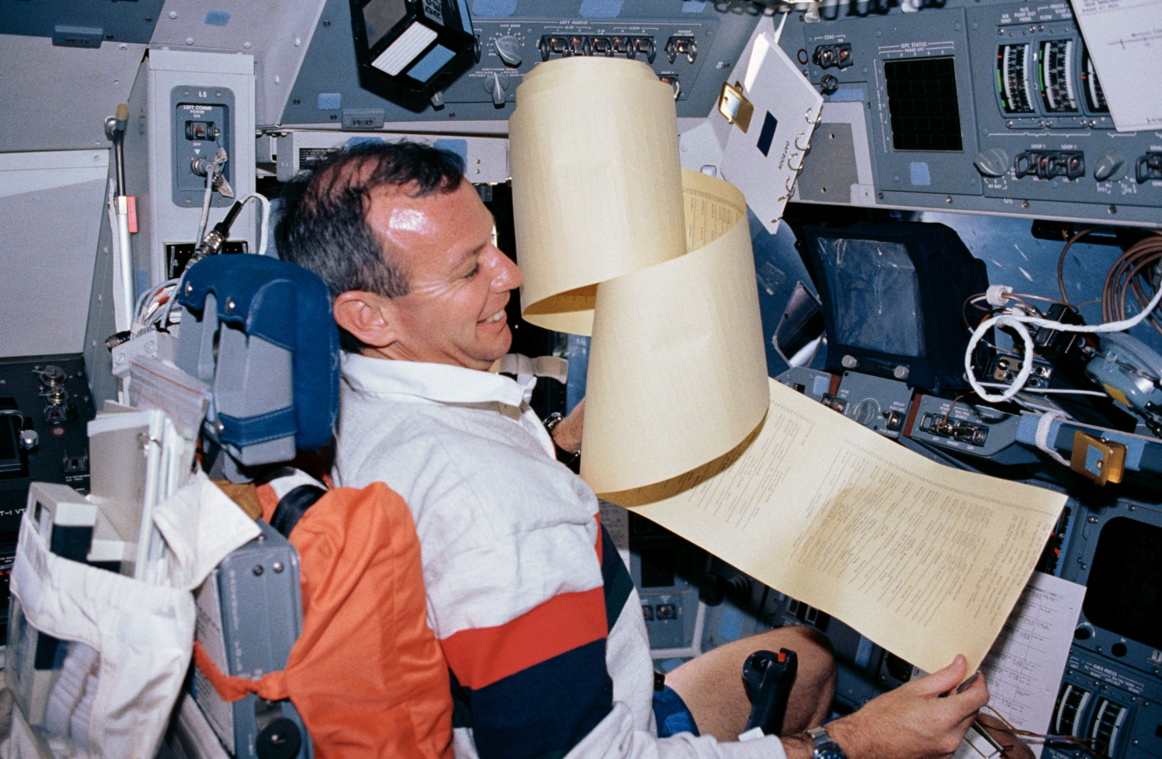 STS-45 Pilot Brian Duffy, positioned at the commanders station, wrestles with a text and graphics system (TAGS), a teleprinter system, printout on forward flight deck of Atlantis, Orbiter Vehicle (OV) 104. Surrounding Duffy are the forward control panels, the head up display (HUD), forward windows, and the stowed Shuttle Amateur Radio Experiment (SAREX) equipment.